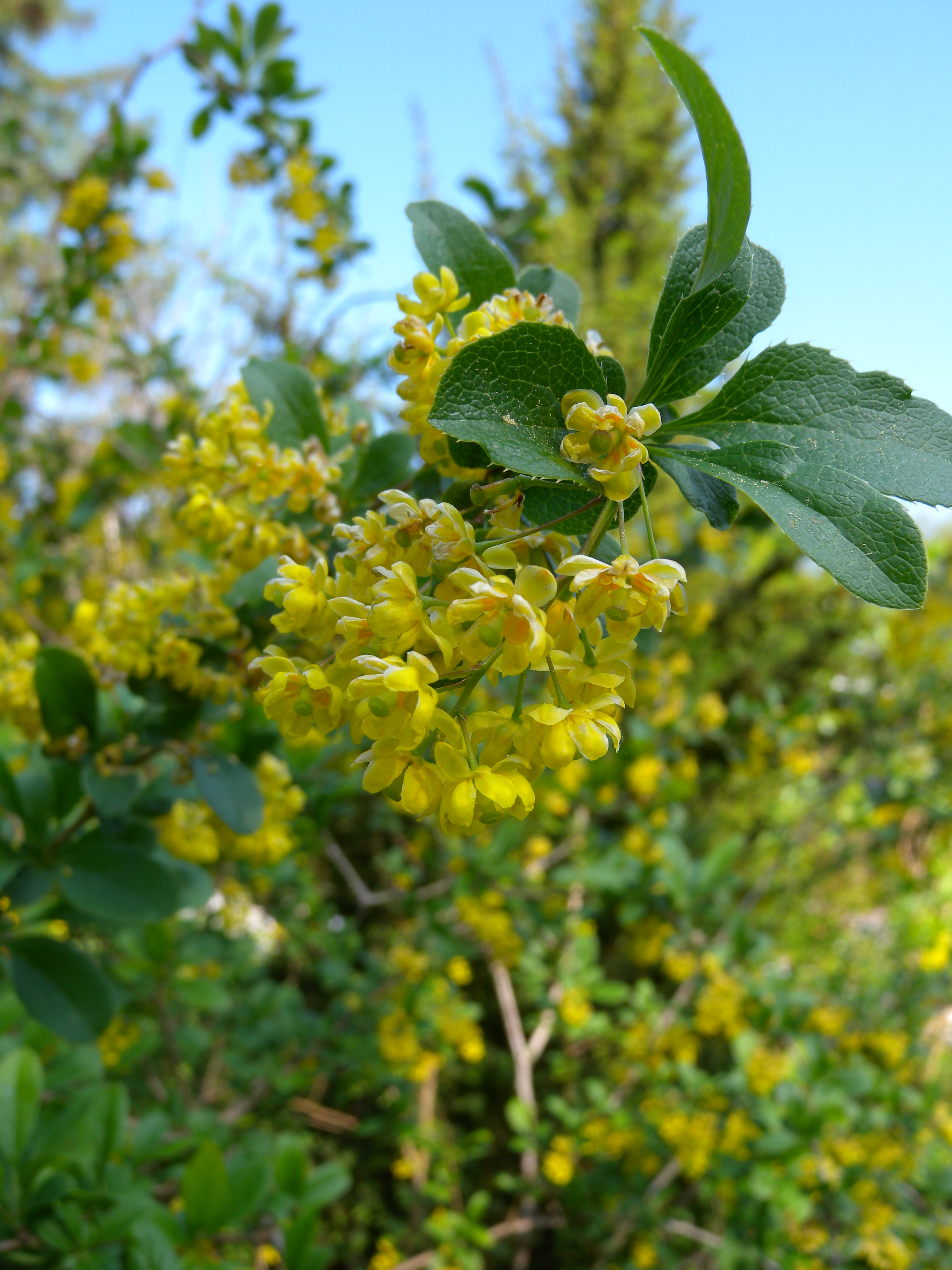 Berberis vulgaris (Berberidaceae), Botanical Garden Bern, Switzerland